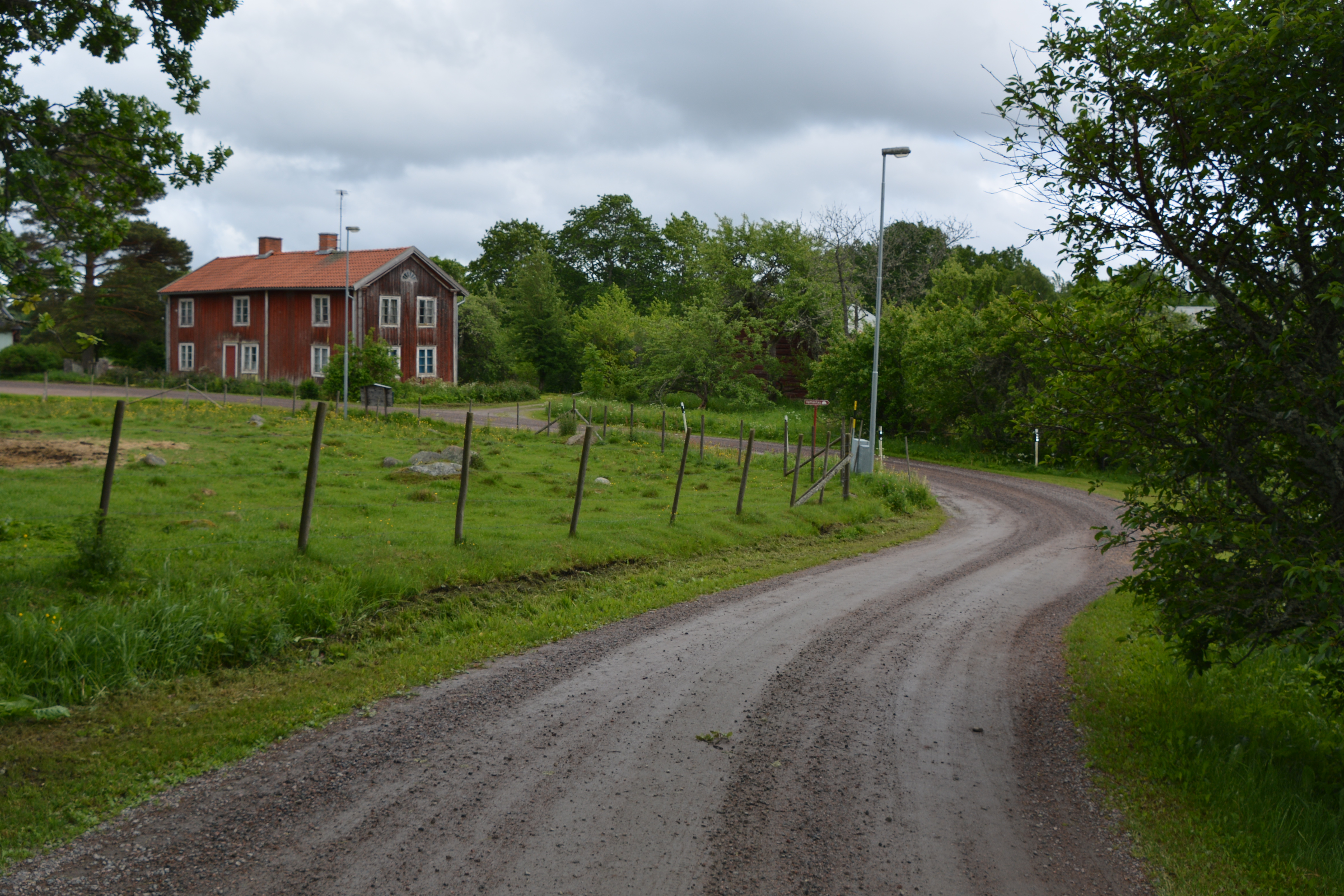 Hargshult, Vetlanda Municipality